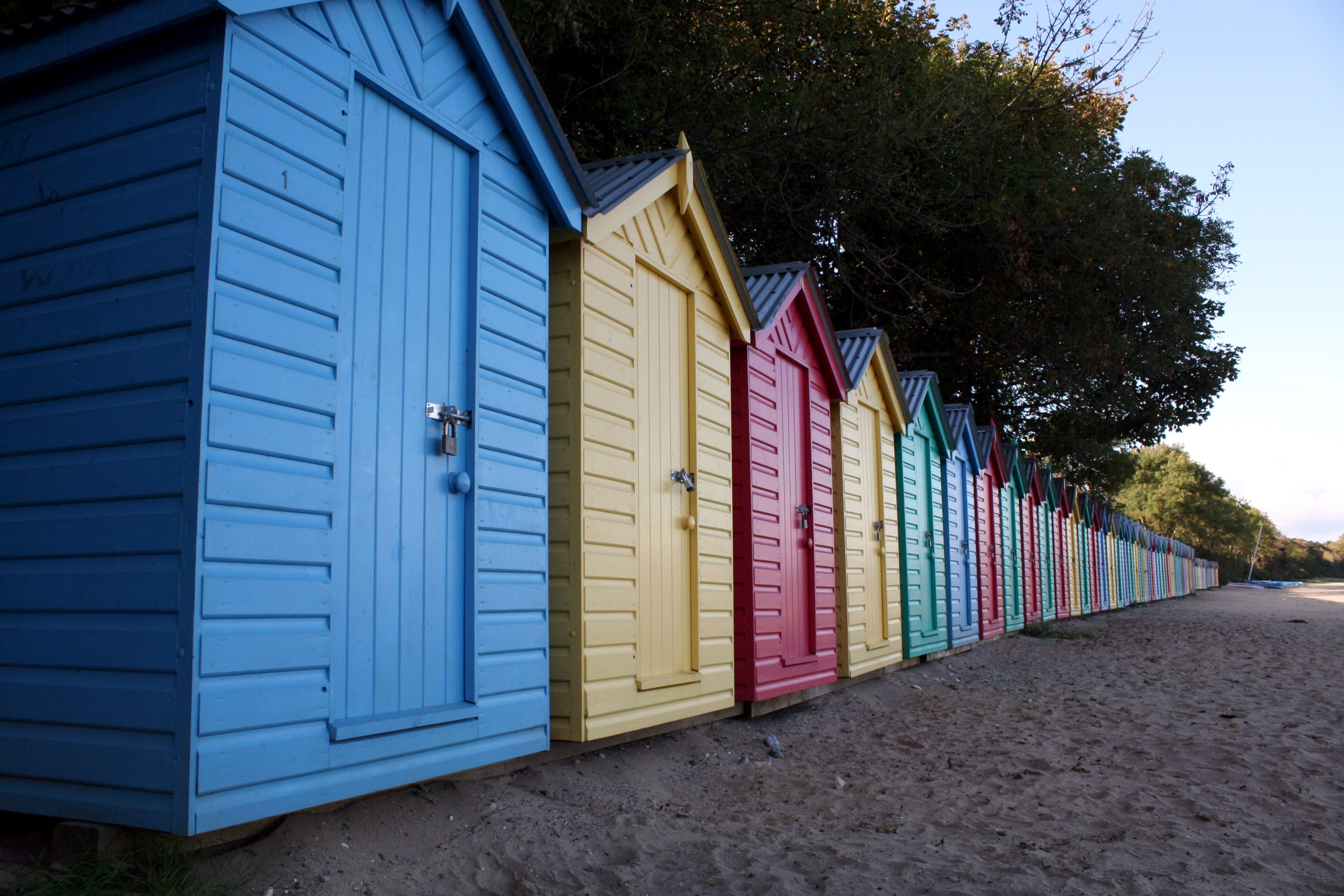 Beach Huts on Llanbedrog Beach